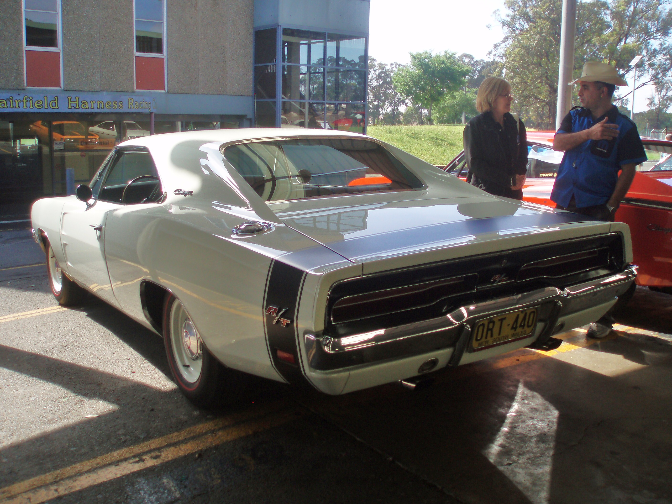 1969 Dodge Charger R/T 440 coupe. Taken at the 2010 New South Wales All Chrysler Day, held at Fairfield Showground, Prairiewood, Sydney.